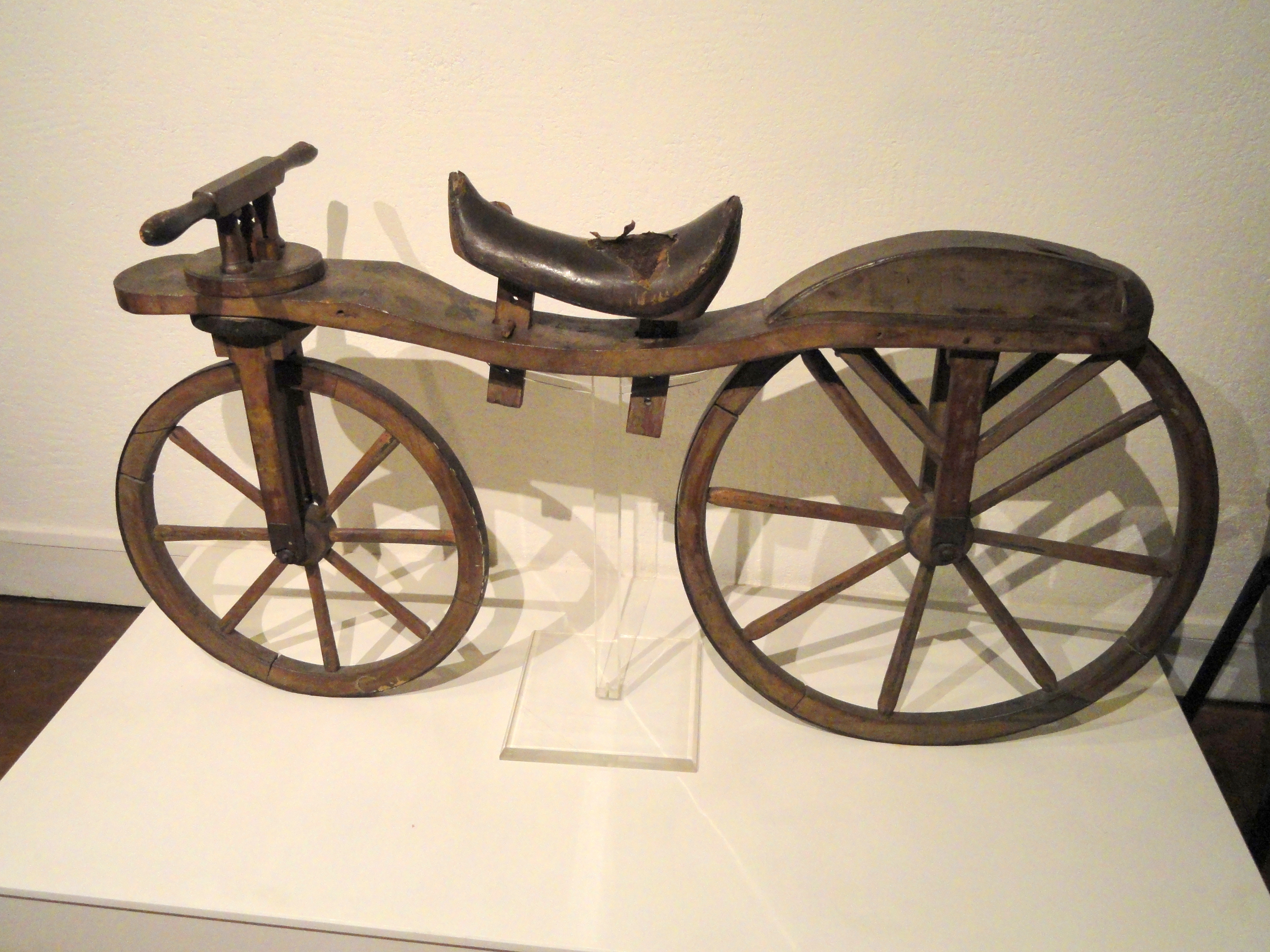 Exhibit in the Musée Nicéphore Niépce, 28 Quai Messageries, Saône-et-Loire, France. There were no restrictions on photography in the museum.